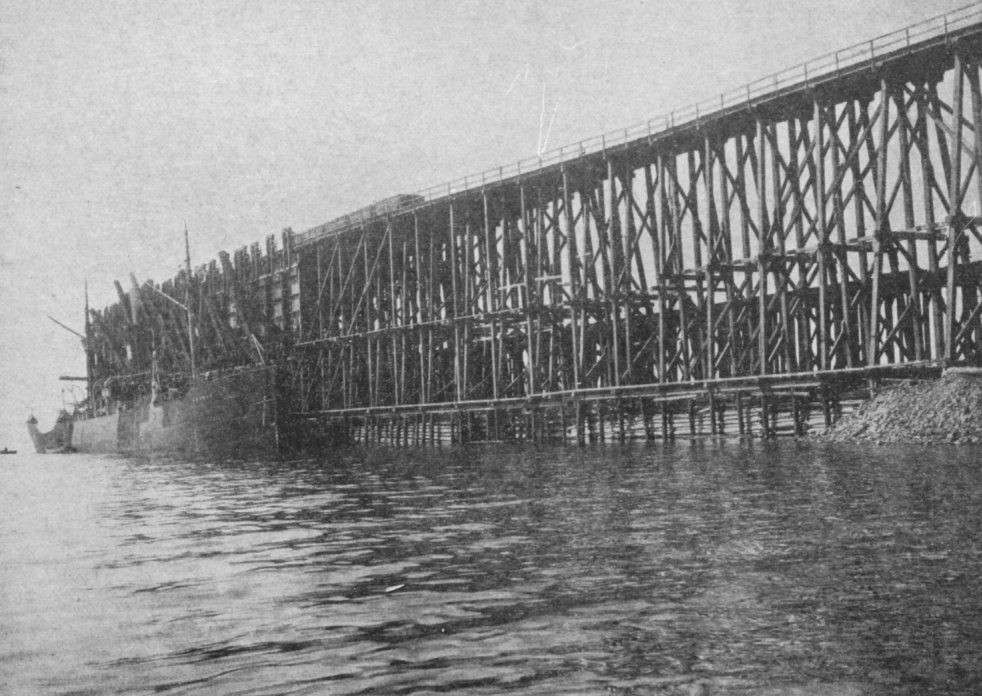 Coal loading pier at Sydney, Cape Breton, Nova Scotia, ca 1903